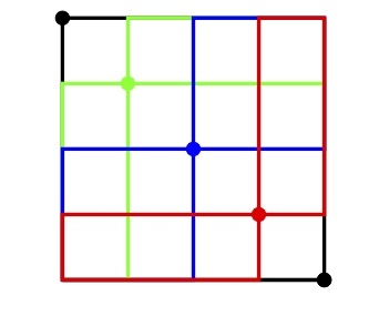 Proof by picture that 2n choose n is equal to the sum of n choose k squared, as k runs from 0 to n. This picture is for n=4.